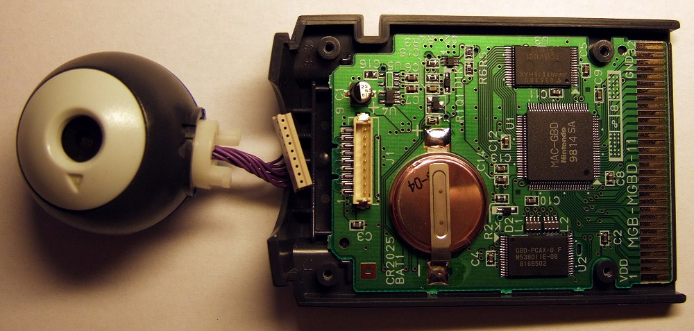 Game Boy Cam - Gesamtansicht